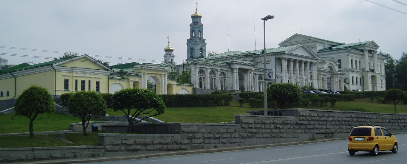 The Rastorguev-Kharitonov estate in the Russian city of Yekaterinburg image taken in summer2005